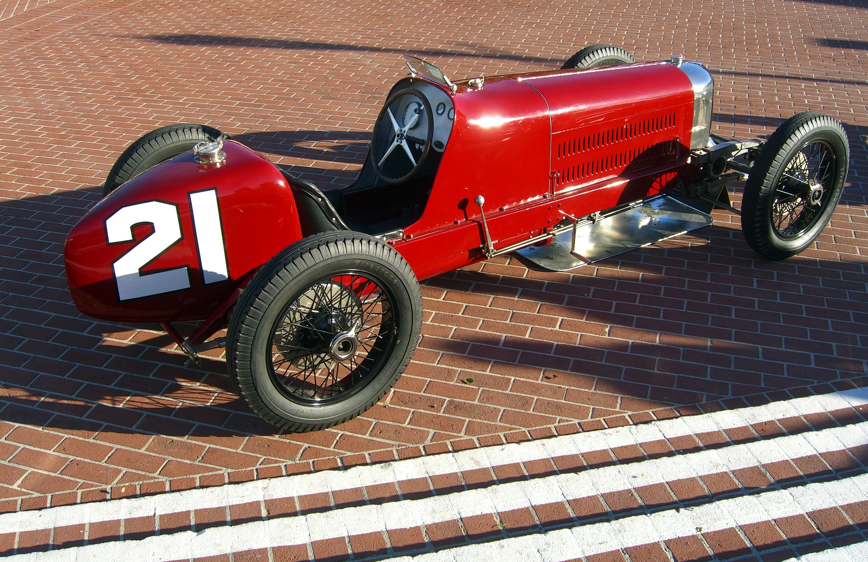 1925 Miller 122 Indianapolis 500 racer